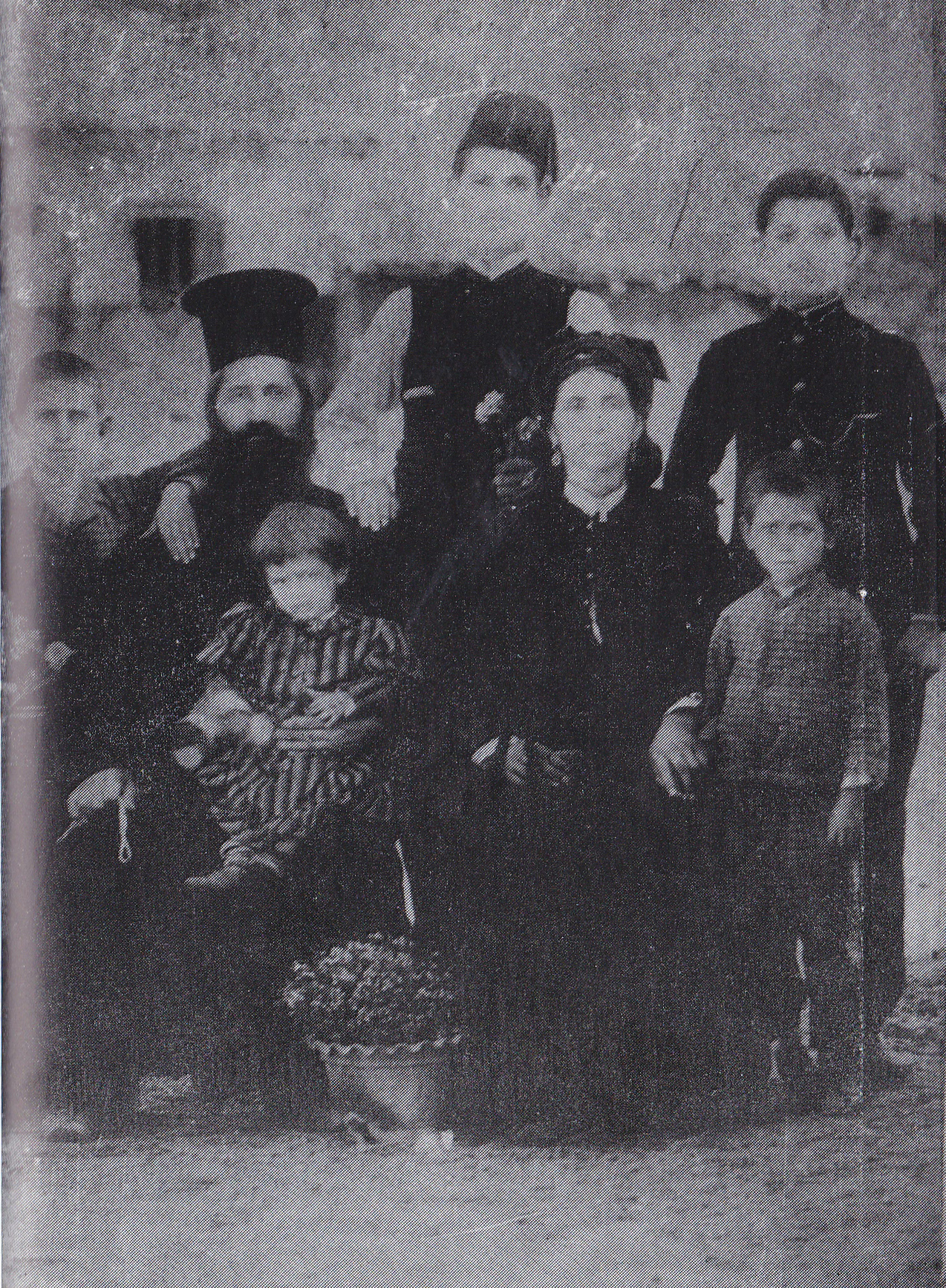 bulgarian revolutionary